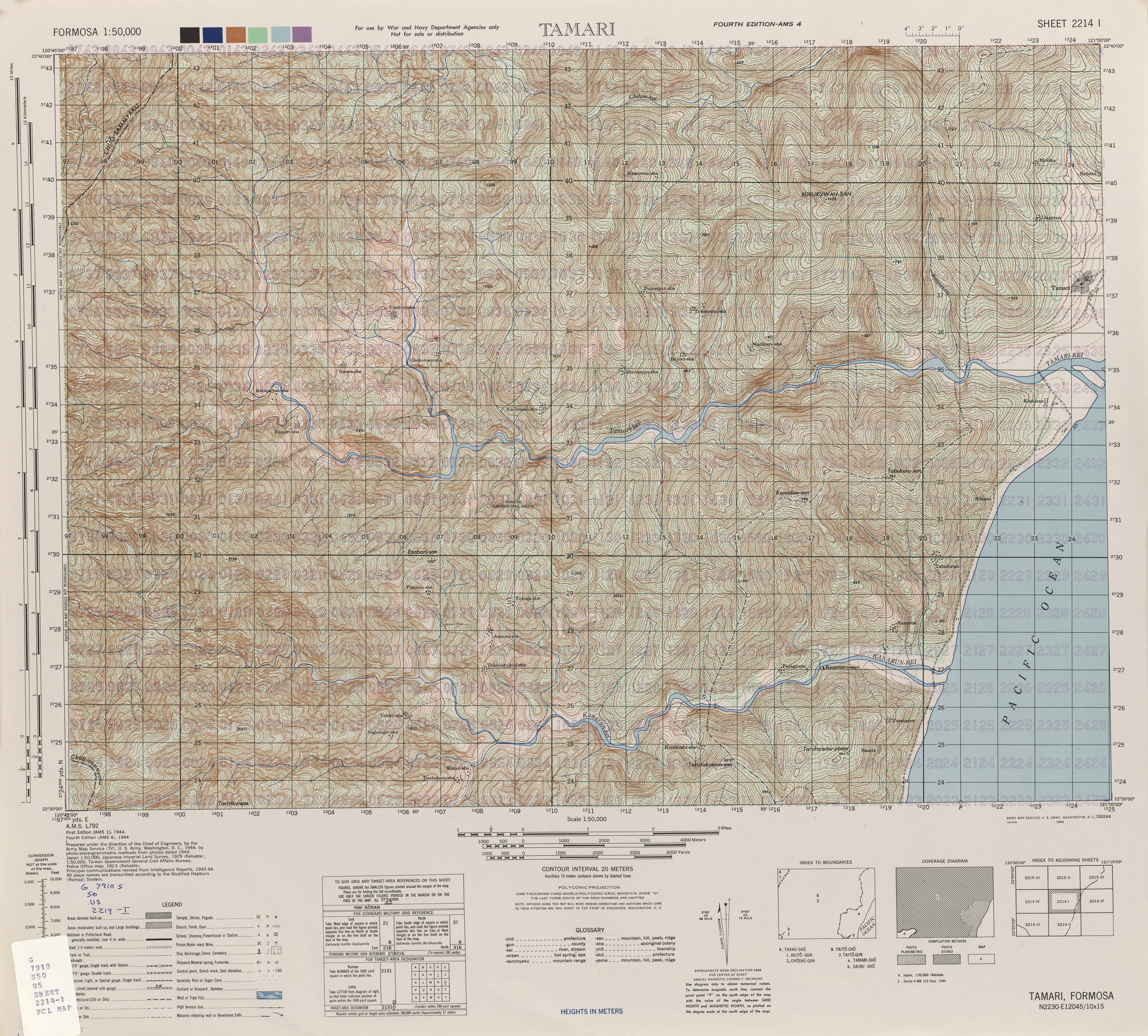 Map from Formosa (Taiwan) 1:50,000 AMS Series L792